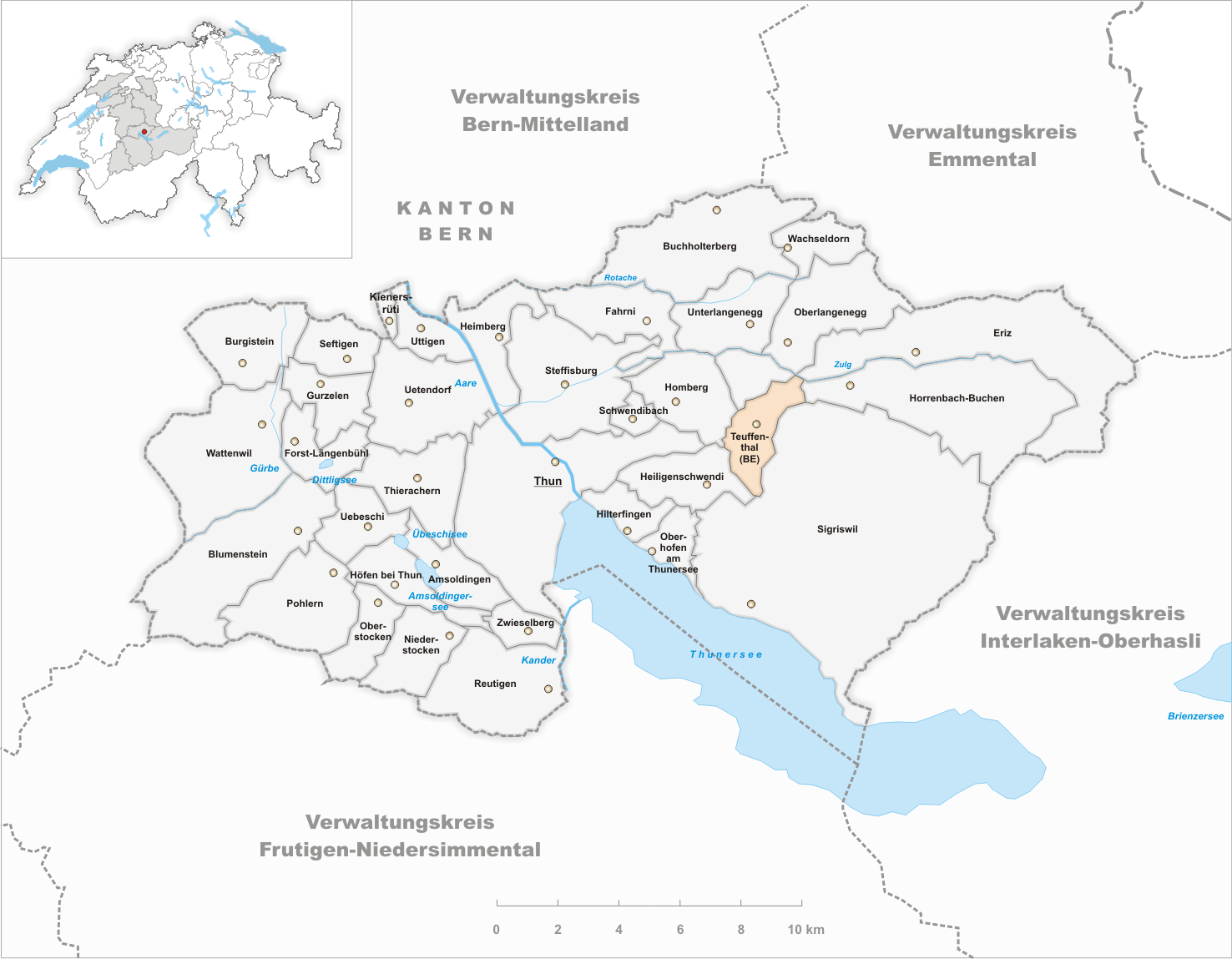 Municipality Teuffenthal